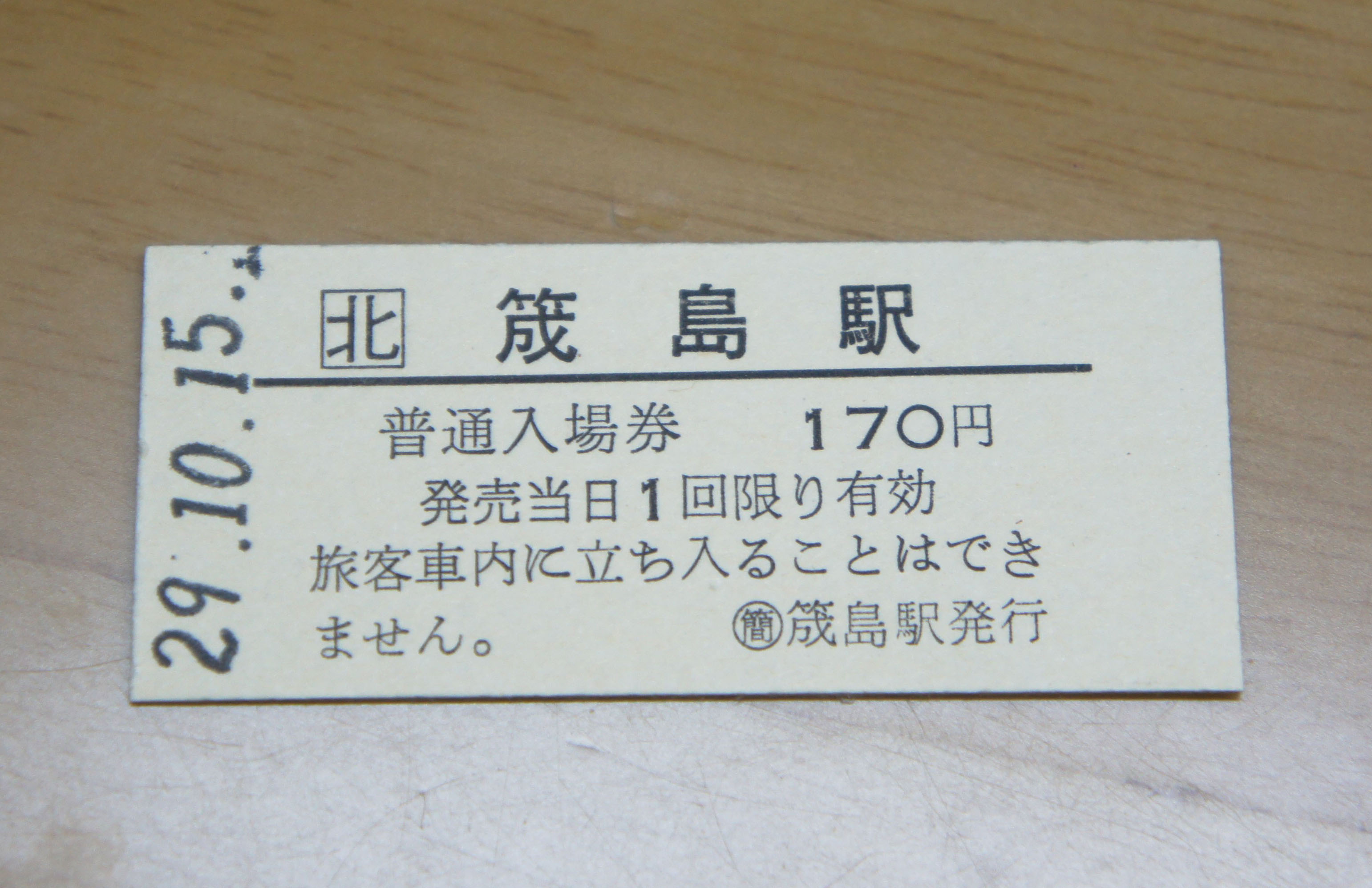 Rigid Tickets at JR Soya-Main-Line Osashima Station. In commemoration of the 95th anniversary of business opening, it was on sale for a limited time. Sony NEX-3